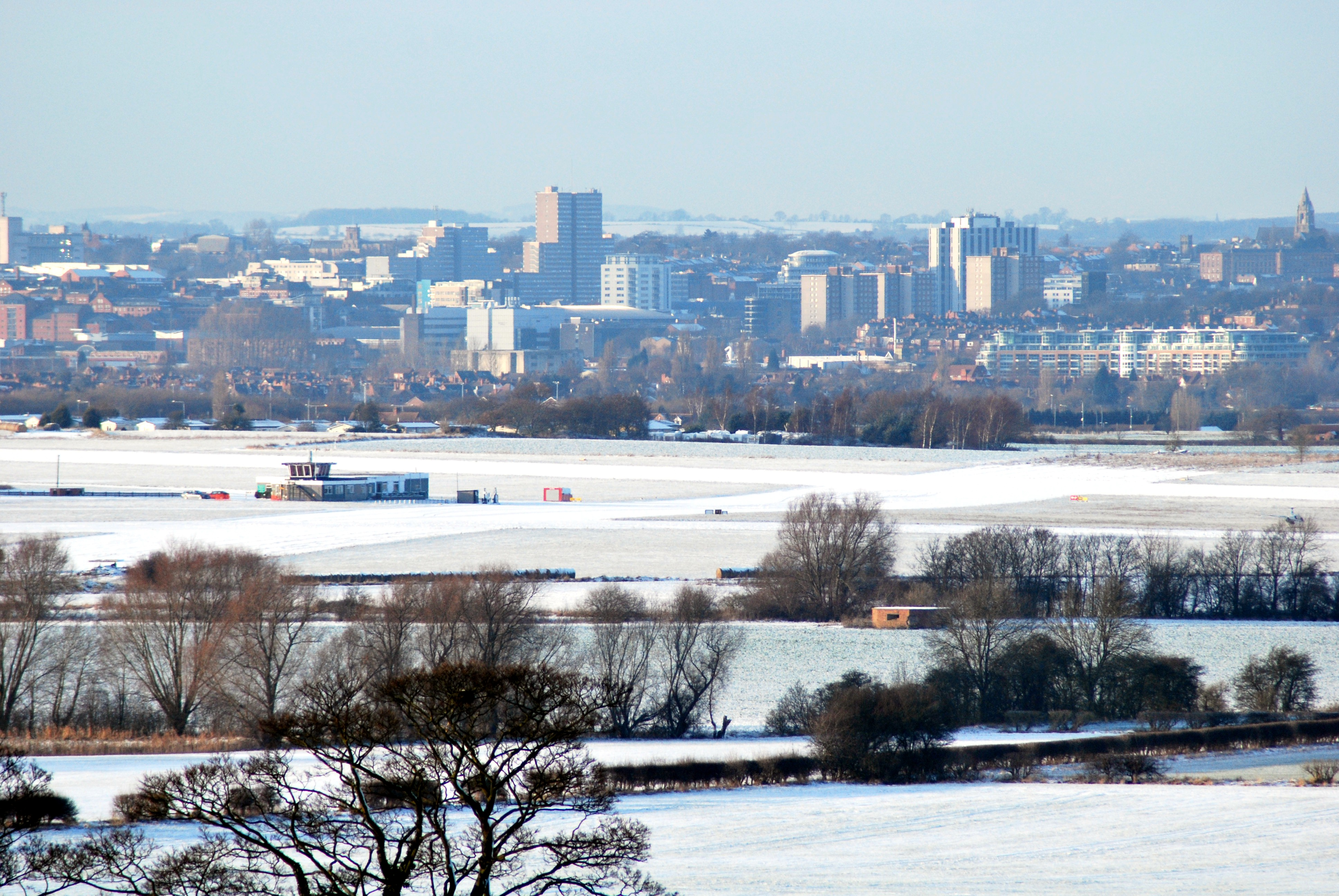 View from Clipston towards the city of Nottingham. Tollerton airport in view with WW2 anti aircraft emplacements.